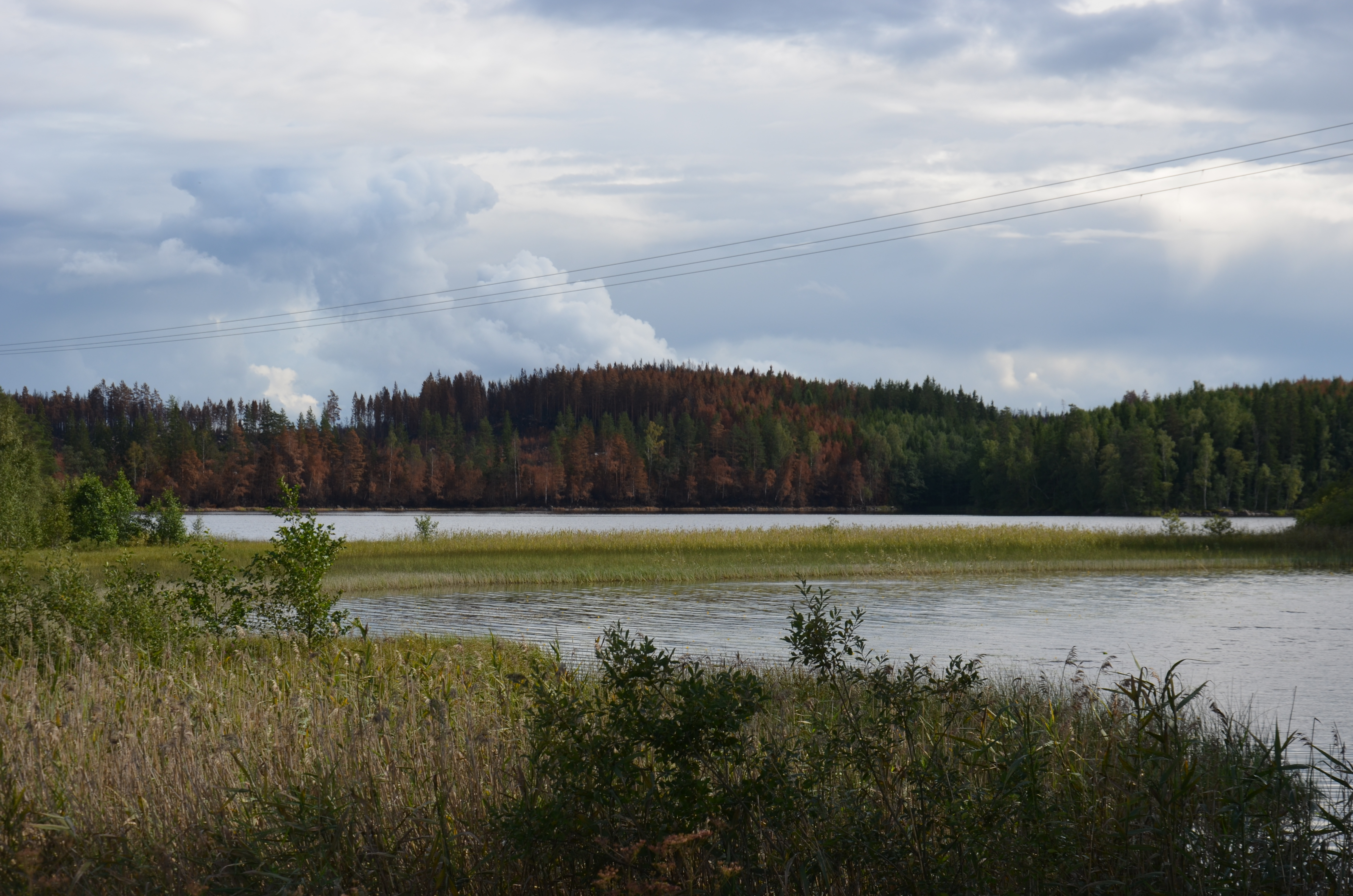 Lake Snyten, Norberg